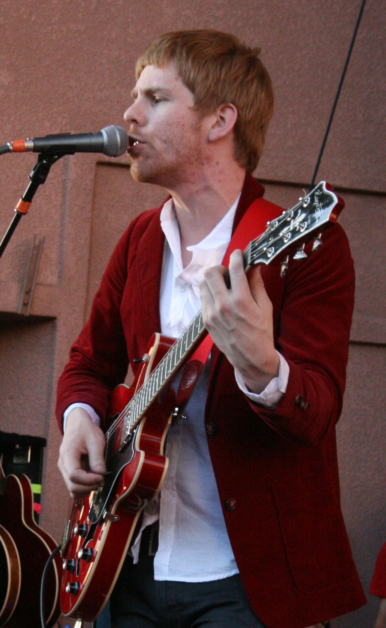 Bob Morris of the Hush Sound performing on April 13, 2008 on the Honda Civic Tour.